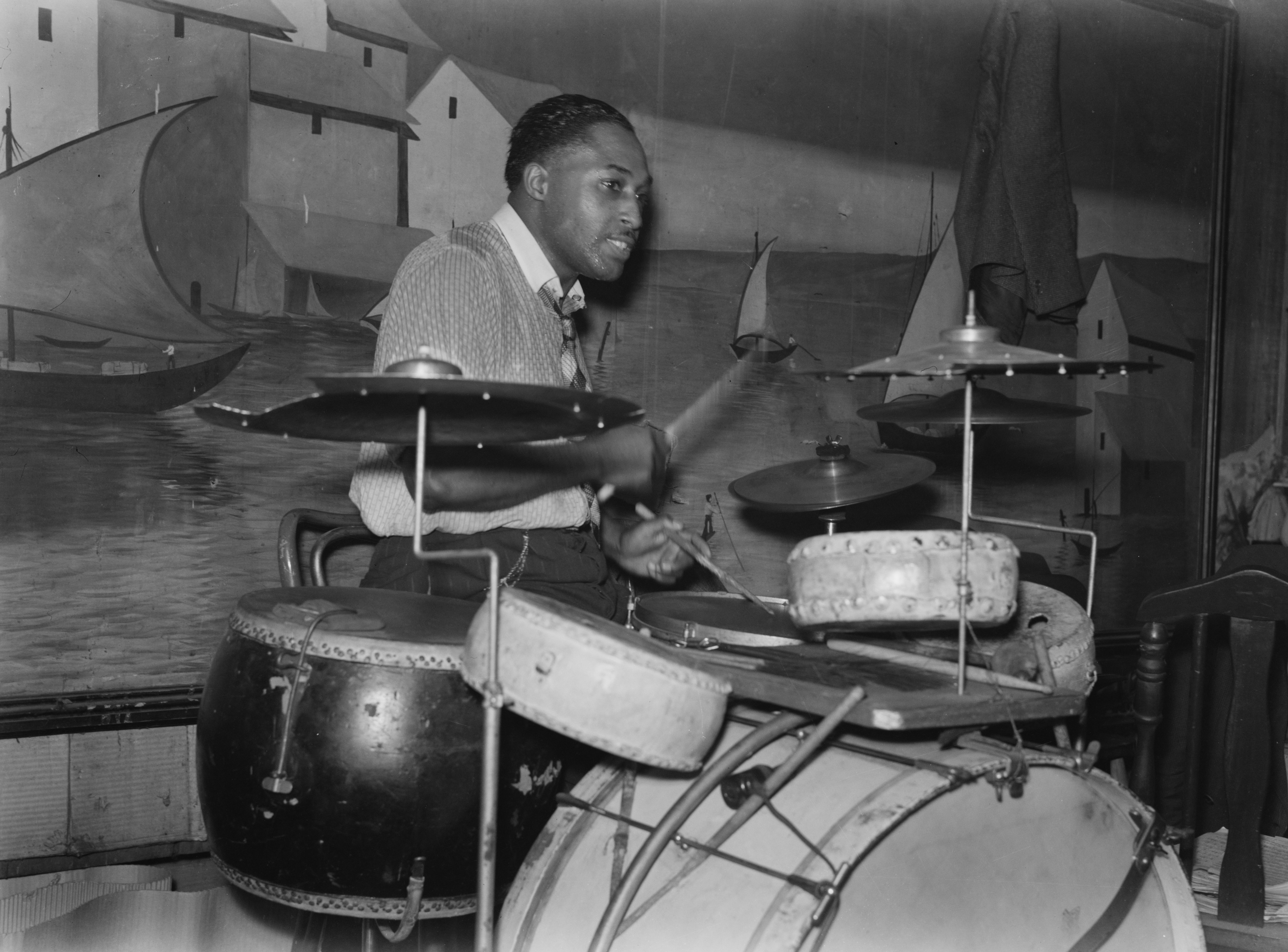 Drummer in orchestra in Memphis juke joint. Tennessee. Wolcott, Marion Post, 1910- photographer. CREATED/PUBLISHED 1939 Oct. NOTES Title and other information from caption card. Transfer; United States. Office of War Information. Overseas Picture Division. Washington Division; 1944. SUBJECTS Nitrate negatives. United States--Tennessee--Shelby County--Memphis. MEDIUM 1 negative : nitrate ; 3 1/4 x 3 1/4 inches or smaller. CALL NUMBER LC-USF34- 052907-D REPRODUCTION NUMBER LC-USF34-052907-D DLC (b&w film nitrate neg.) LC-USZ62-130980 DLC (b&w film copy neg. from print) PART OF Farm Security Administration - Office of War Information Photograph Collection (Library of Congress) REPOSITORY Library of Congress Prints & Photographs Division Washington, DC 20540